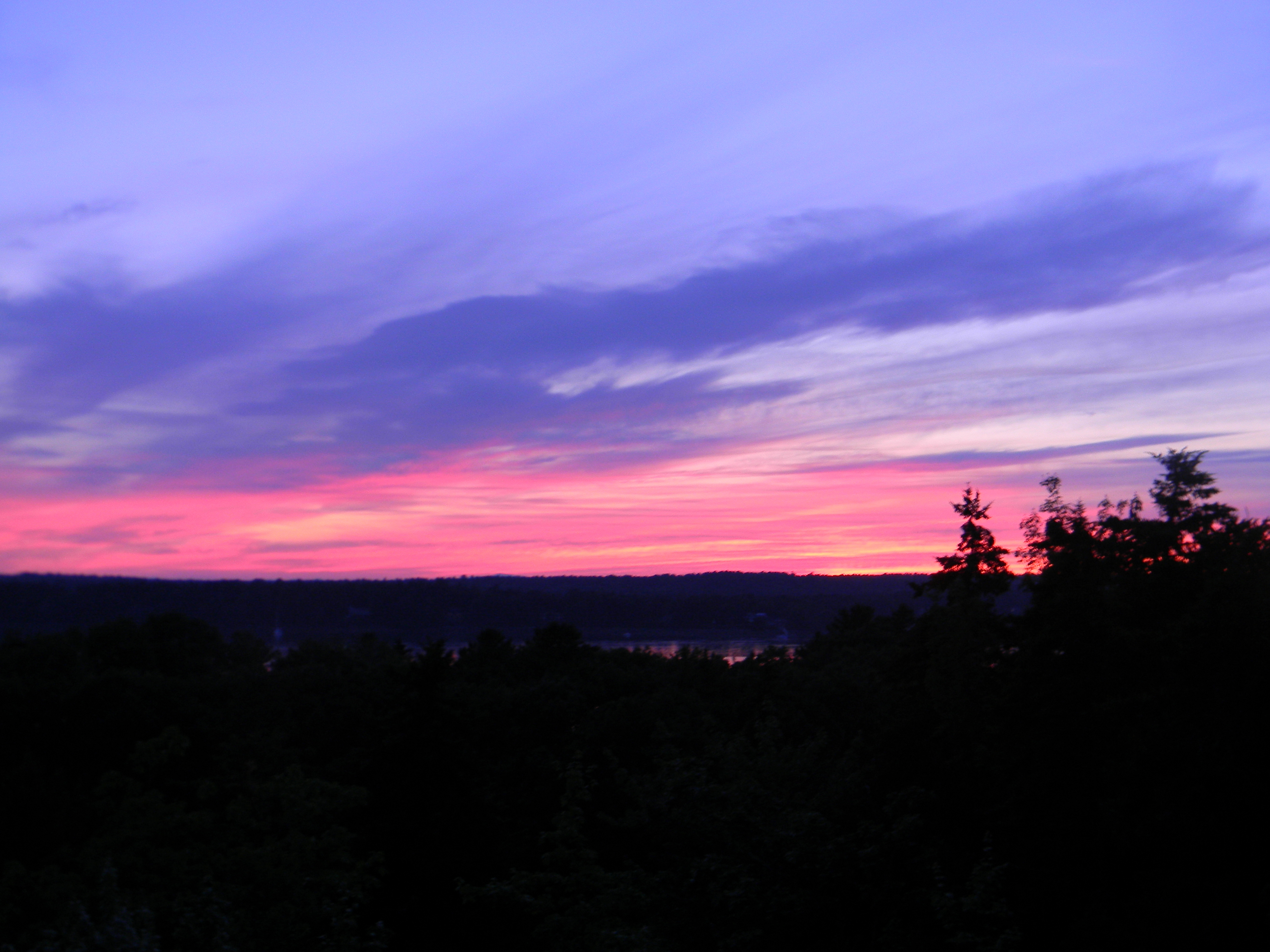 Sunset from Orrs Island